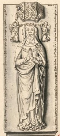 2=Jeanne of Toulouse